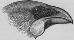 General characterisitics of kokako bill.